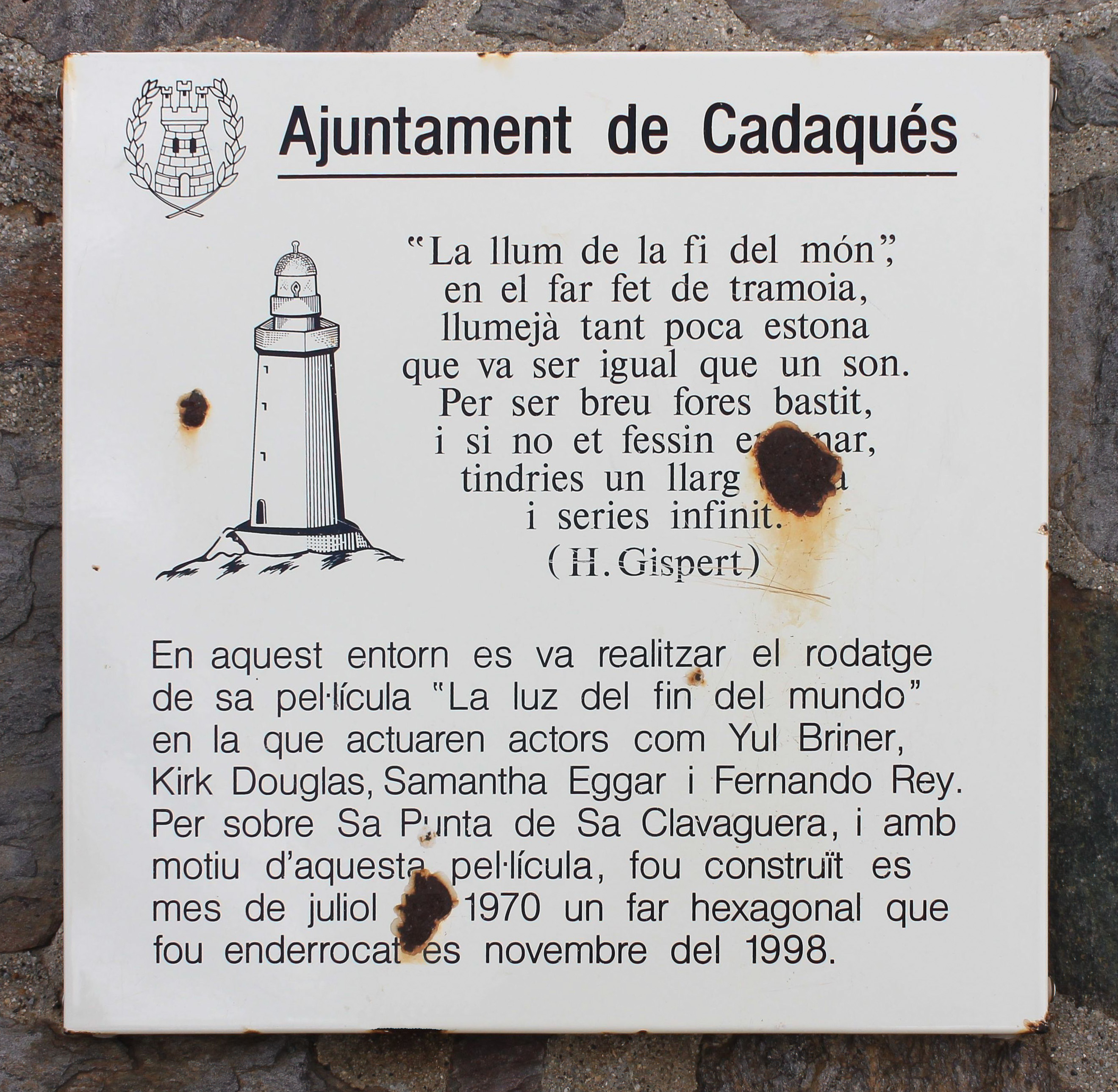 Commemorative plate, Spain, northeastern coast, Parc Cap de Creus